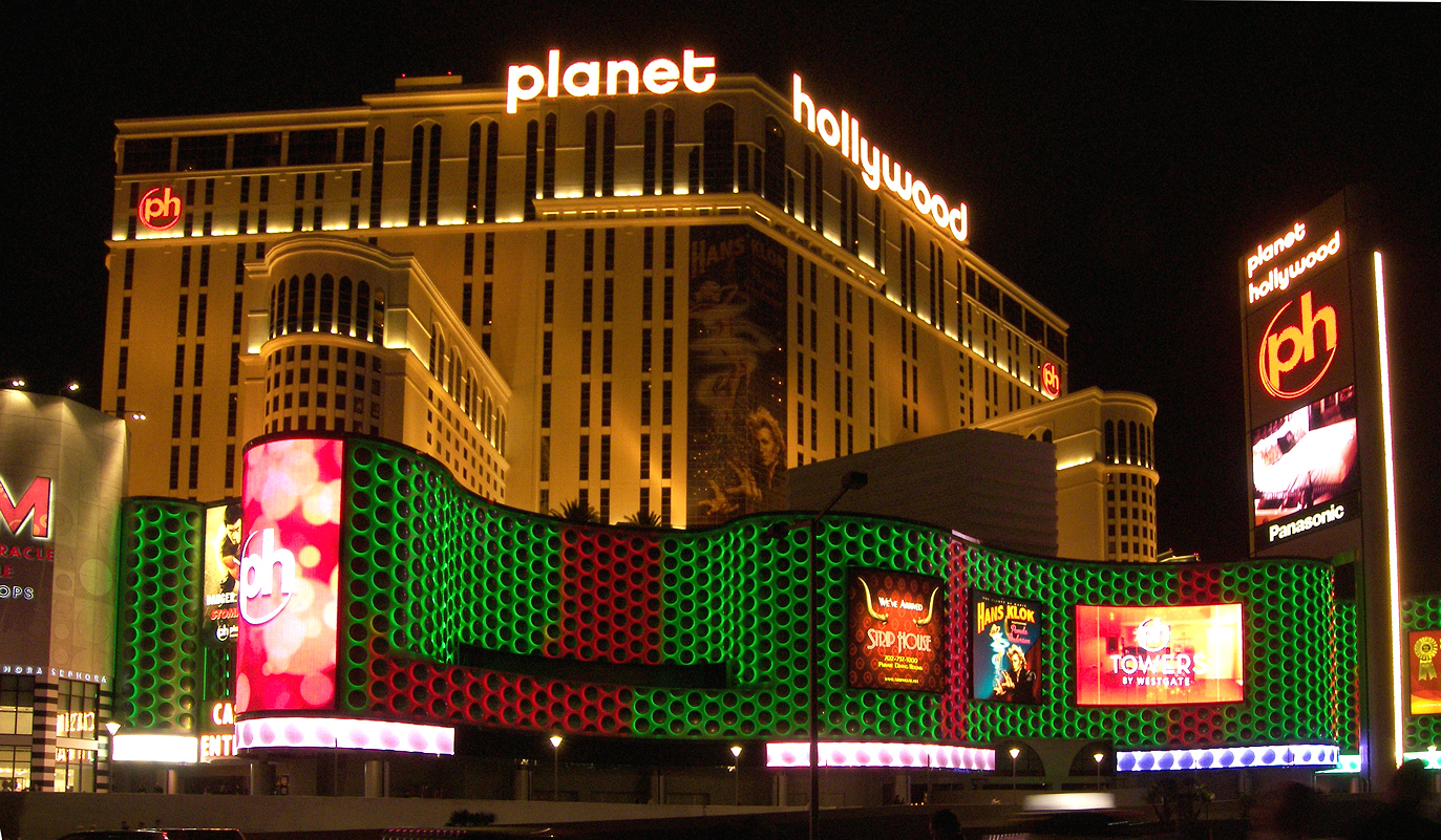 Planet Hollywood Resort and Casino, Las Vegas, Nevada, United States.